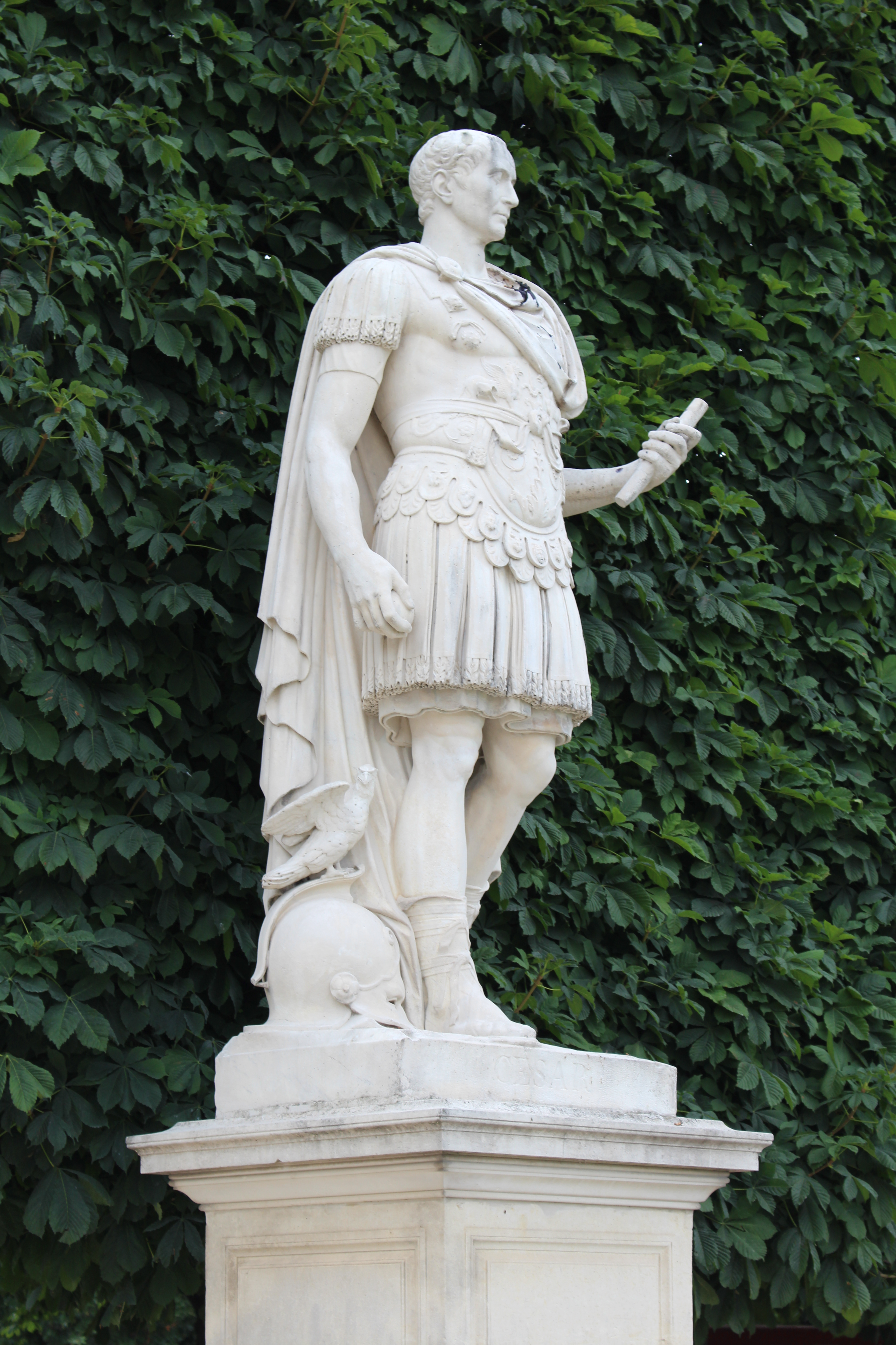 Statue of Julius Caesar, Jardin des Tuileries in Paris, France.